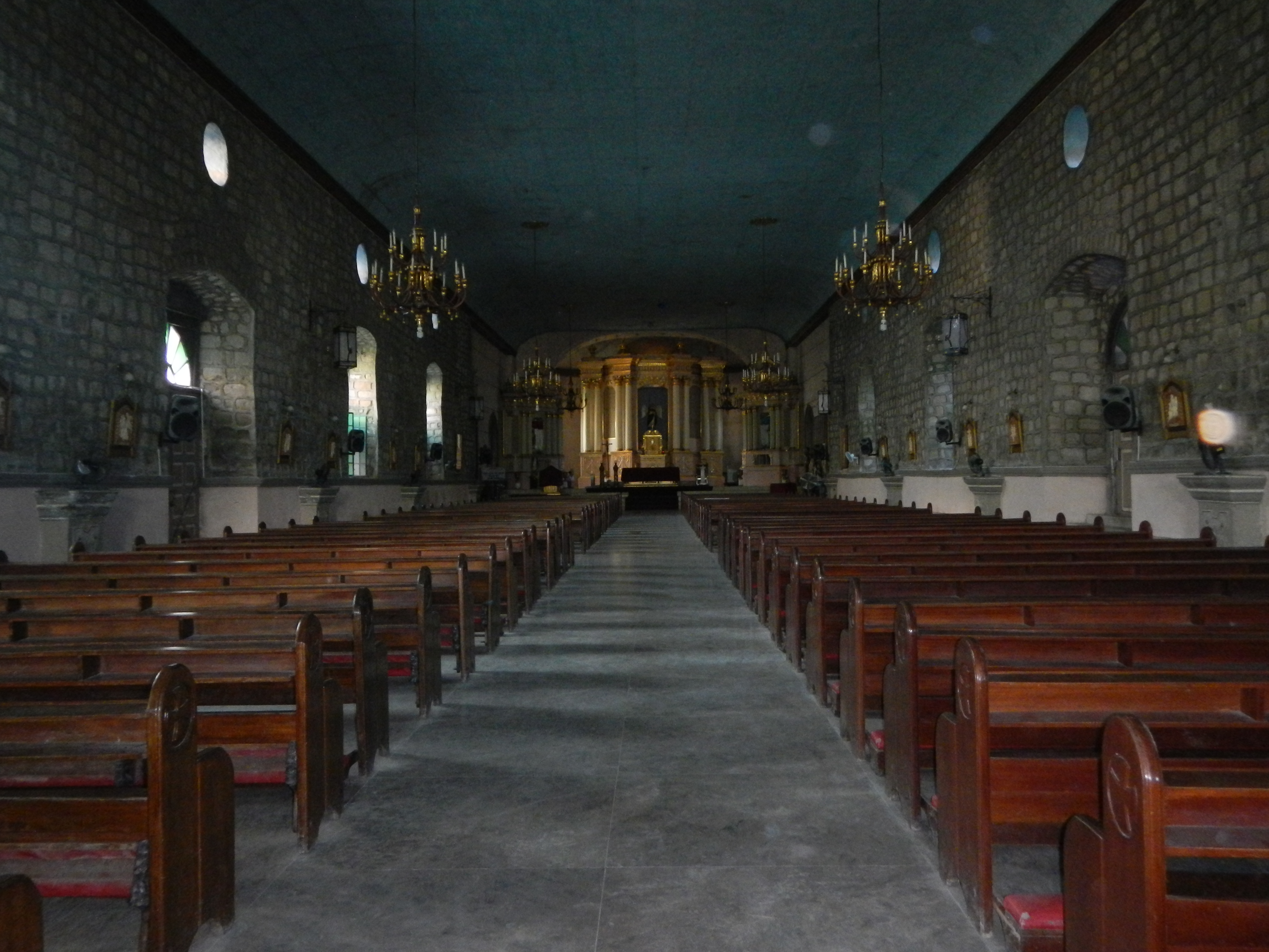 1614 Parish Church of St. Vincent Ferrer, Vicariate of St. Ildephonse, 2423 Pangasinan Tel. 592-2024 Titular: St. Vincent Ferrer, Priest, Apr. 5 Team Moderator: Rev. Rolando Salosagcol Members: Rev. Primo Aquino, Rev. Anthony B. Layog[1][2][3] This town with primitive name of Malungay was accepted by the Dominican Provincial Chapter in 1619, under the patronage of St. Vincent Ferrer. It was known as Malungay unitl 1741, when the name Bayambang was adopted--the name of the place or site where the old town site was transferred. Malungay, already existed as a settlement as early as 1614 but it was not established as a vicariate until 1619. By 1804, the three-naved church of Bayambang was deteriorating and so plans were made to build a new and bigger one. The work was begun by Fr. Manuel Sucias in 1813. It had a cruciform plan. It was continued by Fr. Juan Manzano, Fr. Joaquin Flores, and Fr. Benito Foncuberto, but the work was slow due to many difficulties. It was finally completed by Fr. Juan Ibañez (1832-1847), In 1856, the church was burned. It was reconstructed by Fr. Foncuberto who tore down the cruciform plan and built two sacrities. He roofed the church with tiles but due to earthquakes, he replaced the roofing with galvanized iron. Measuring 16.50 meters wide and 85.70 meters long, the church has survived to this day. The new church belfry is the work of Fr. Ciriaco Billote.[4]